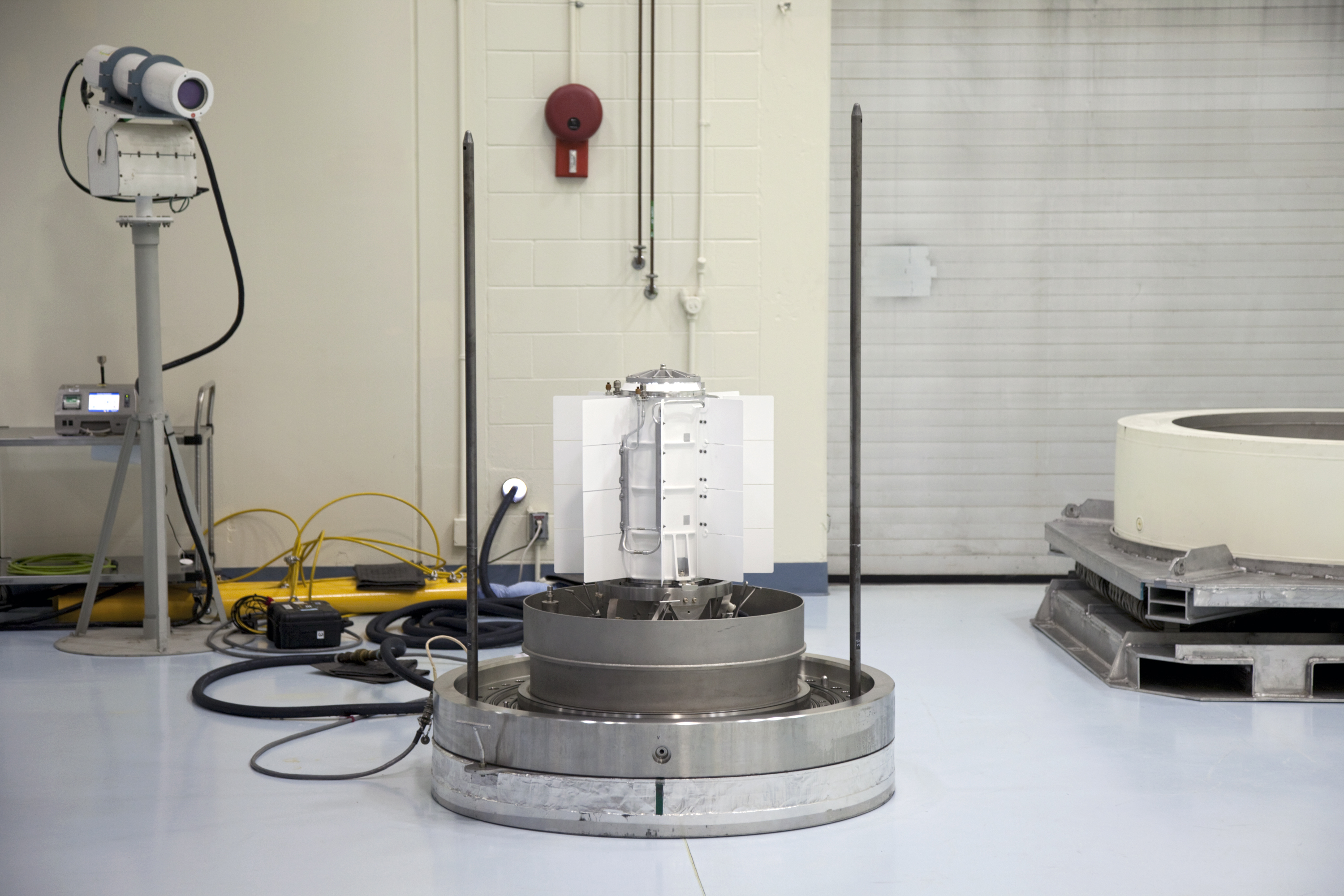 CAPE CANAVERAL, Fla. -- In the RTG storage facility at NASA's Kennedy Space Center in Florida, the multi-mission radioisotope thermoelectric generator (MMRTG) for NASA's Mars Science Laboratory mission, with guide rods still installed on its support base, has been uncovered on the high bay floor. The MMRTG no longer needs supplemental cooling since any excess heat generated can dissipate into the air in the high bay. The MMRTG will generate the power needed for the mission from the natural decay of plutonium-238, a non-weapons-grade form of the radioisotope. Heat given off by this natural decay will provide constant power through the day and night during all seasons. Waste heat from the MMRTG will be circulated throughout the rover system to keep instruments, computers, mechanical devices and communications systems within their operating temperature ranges. MSL's components include a compact car-sized rover, Curiosity, which has 10 science instruments designed to search for evidence on whether Mars has had environments favorable to microbial life, including chemical ingredients for life. The unique rover will use a laser to look inside rocks and release its gasses so that the rover’s spectrometer can analyze and send the data back to Earth. Launch of MSL aboard a United Launch Alliance Atlas V rocket is scheduled for Nov. 25 from Space Launch Complex 41 on Cape Canaveral Air Force Station in Florida. For more information, visit